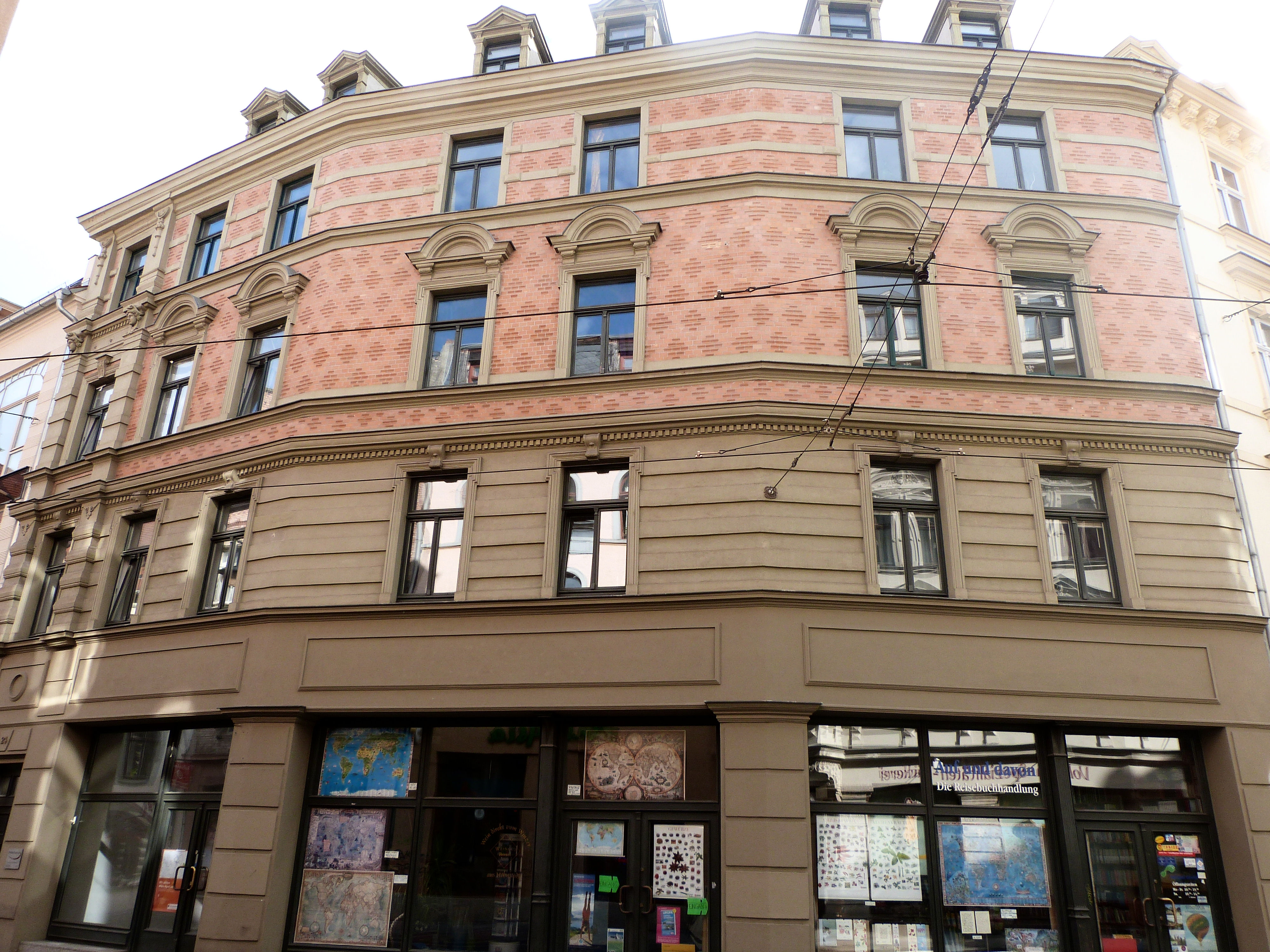 House No. 24, Große Ulrichstrasse, Halle (Saale)